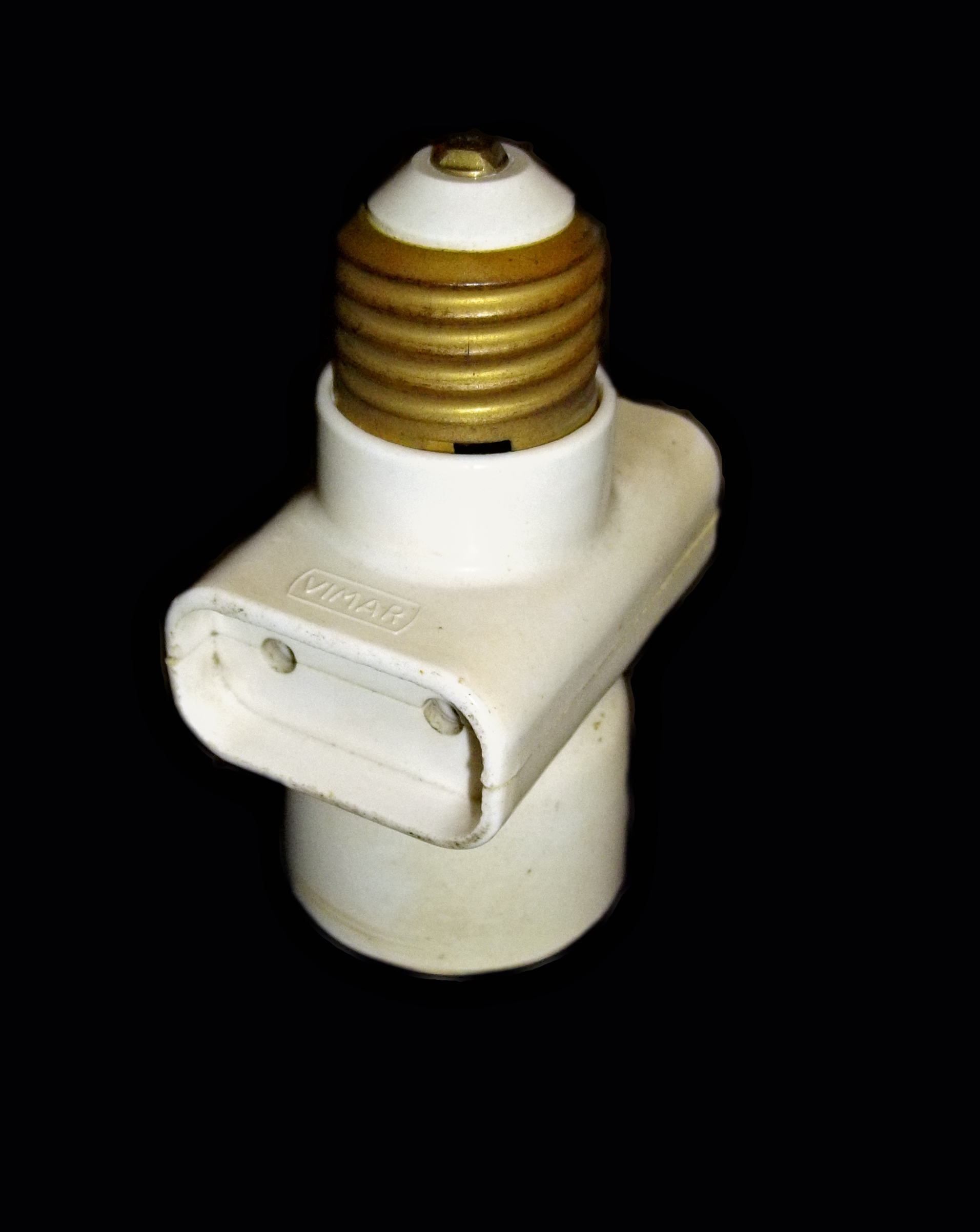 Lampholder with two P 10 sockets